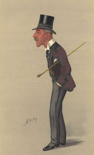 Caricature of Sir William Bartlett Dalby MB MA FRCS (1840-1918). Caption read "the ear". Obituary